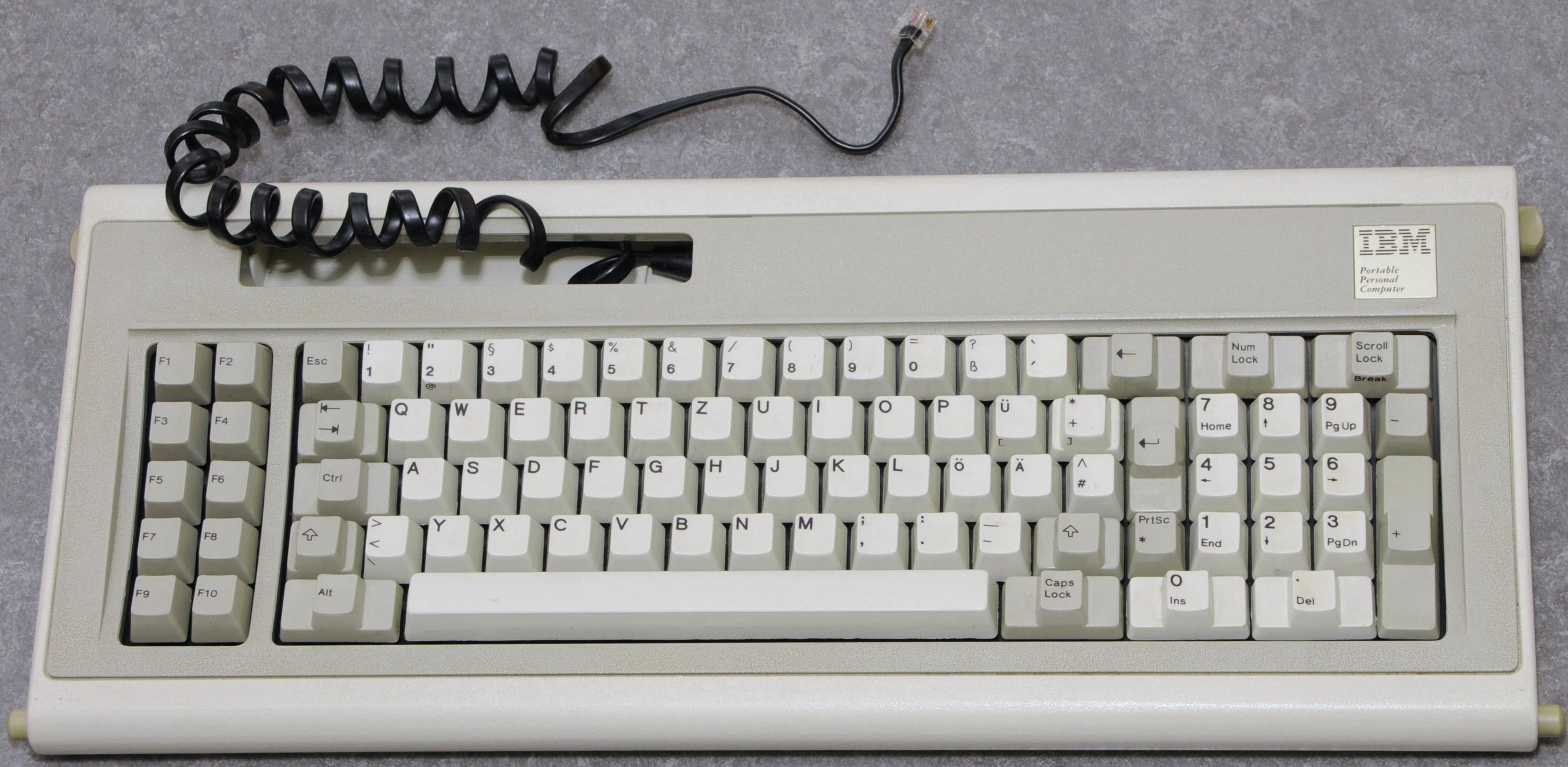 IBM portable PC, model 5155, keyboard with coiled cable and RJ plug